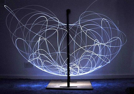 Double Pendulum long exposure, tracked with LED light at its end.